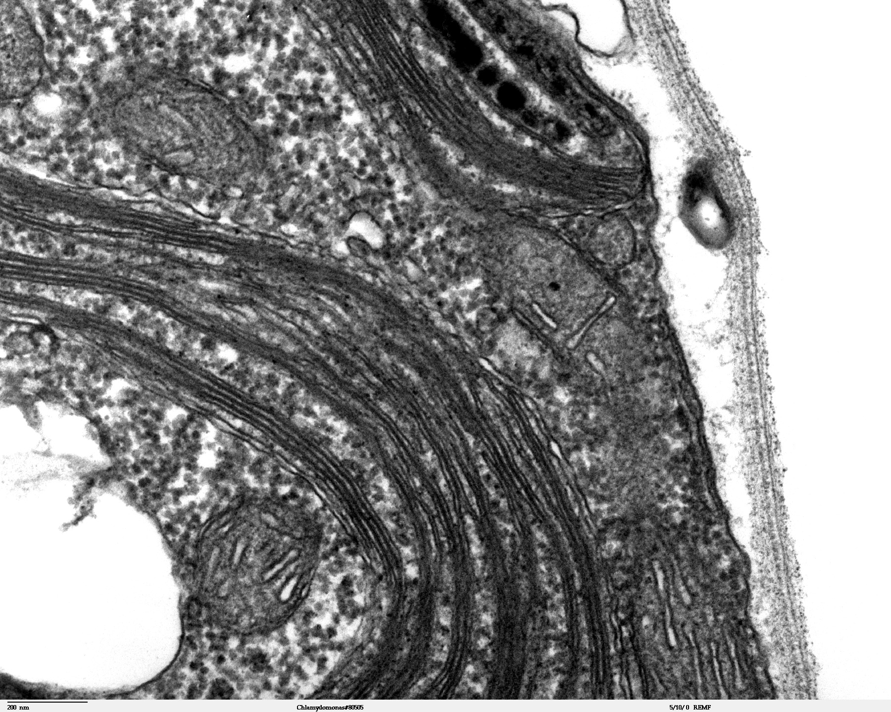 Transmission electron microscope image, showing an example of green algae (Chlorophyta). Chlamydomanas reinhardtii is a unicellular flagellate used as a model system in molecular genetics work and flagellar motility studies. This higher magnification image of Chlamydomanas shows a portion of the chloroplast, the eye spot, mitochondria, and the cell wall.